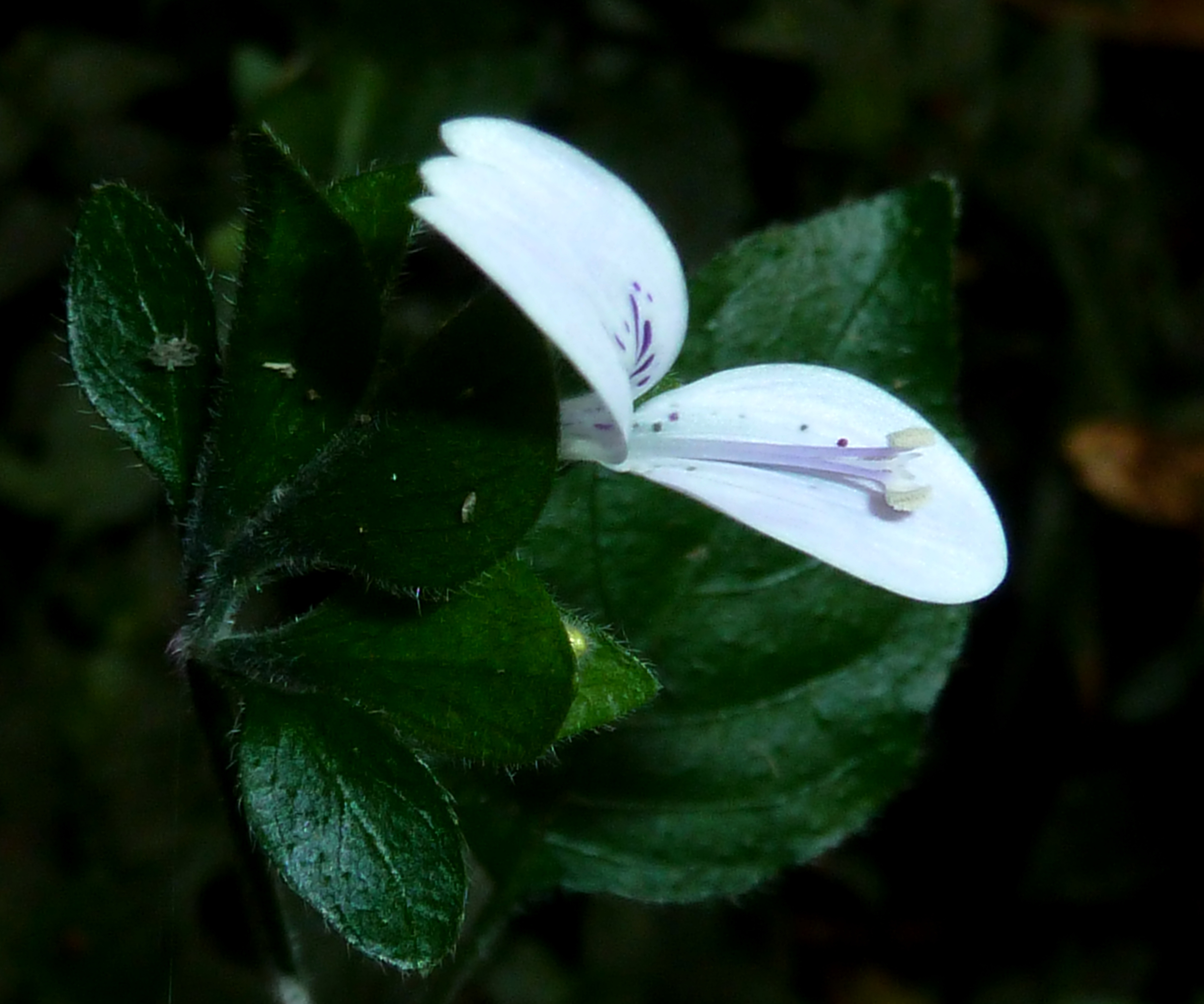 Flower of Hypoestes triflora in Krantzkloof Nature Reserve, KwaZulu-Natal